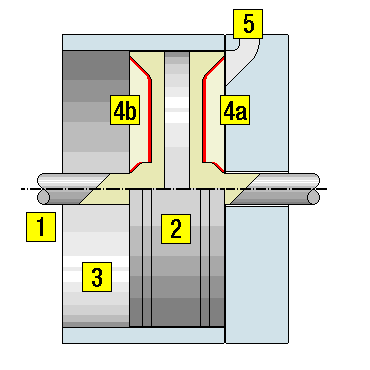 Cylinder